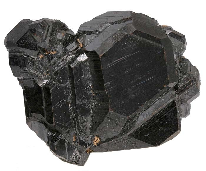 Sphalerite Locality: Dal'negorsk (Dalnegorsk; Tetyukhe; Tjetjuche; Tetjuche), Primorskiy Kray, Far-Eastern Region, Russia (Locality at ) Size: 3.8 x 3.0 x 1.4 cm. A beautifully-articulated crystal of sphalerite, complete all around the sides and in back, from Dalnegorsk. It has a flashy luster on all sides, and a very pretty tiered form.